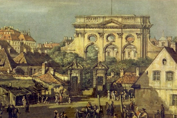 The Iron Gate and the Great Salon of the Saxon Palace in Warsaw (detail of a painting).